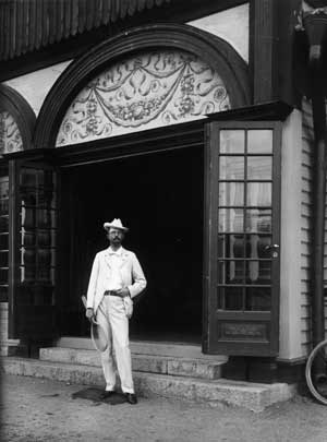 photos, sweden